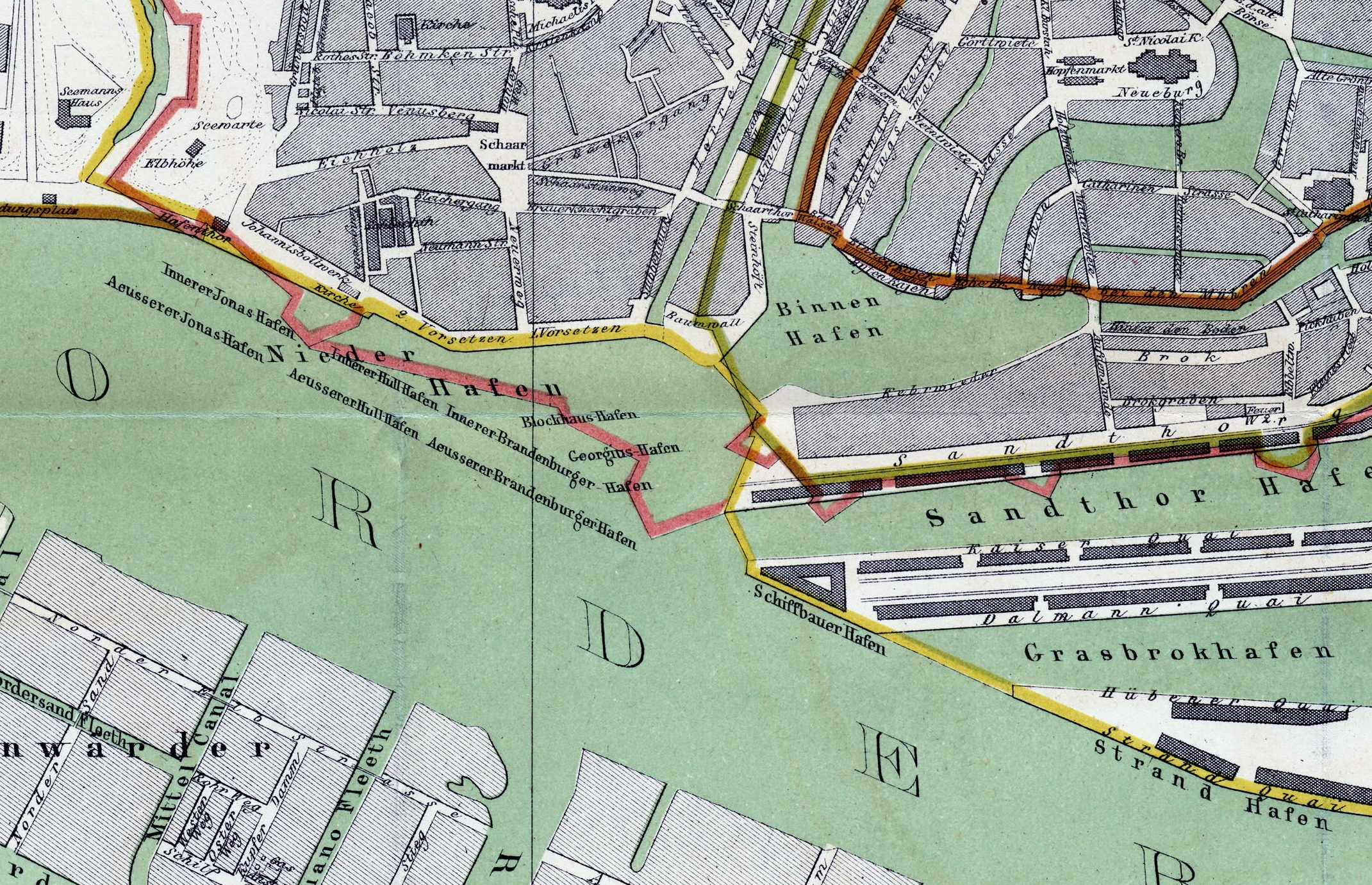 City map of Hamburg from 1880